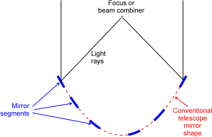 Sketch showing a simple layout for the mirrors in an astronomical interferometer.